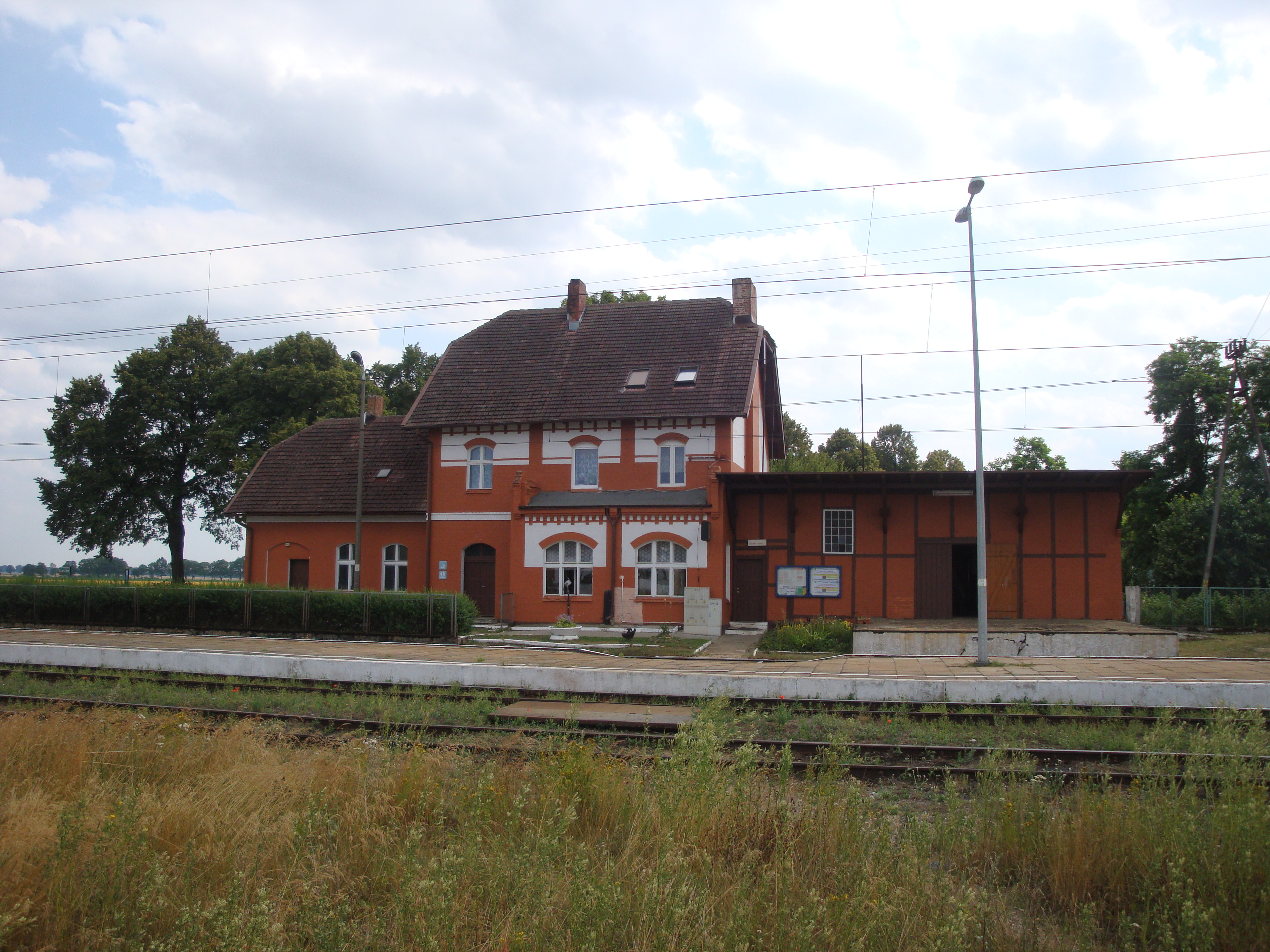 Jezierzyce-village in Pomeranian Voivodeship, Poland. Railway station